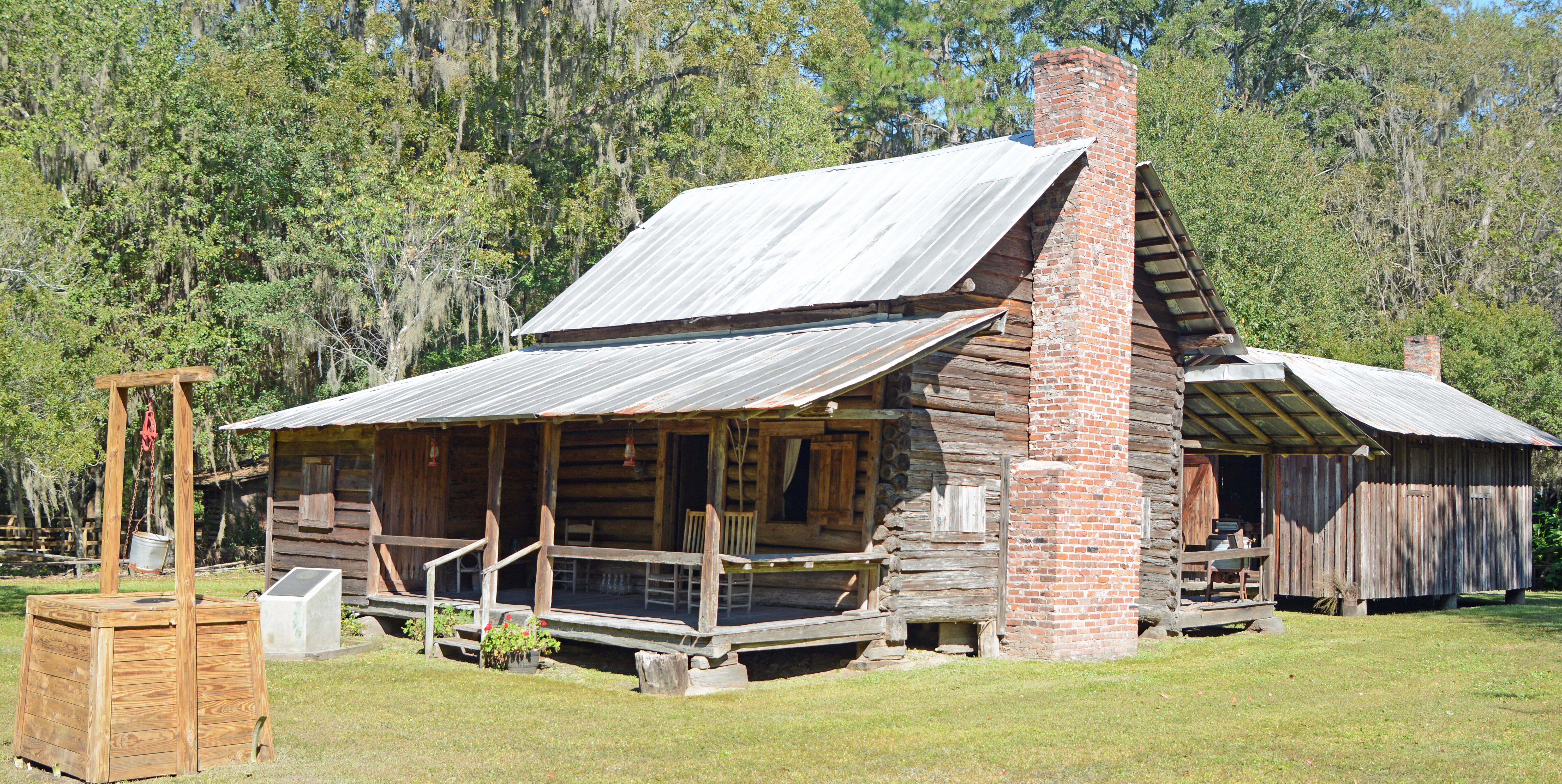 Obediah Barber Homestead in Ware County, Georgia, US. The main house, the kitchen building in back, and the well in front are listed on the NRHP.